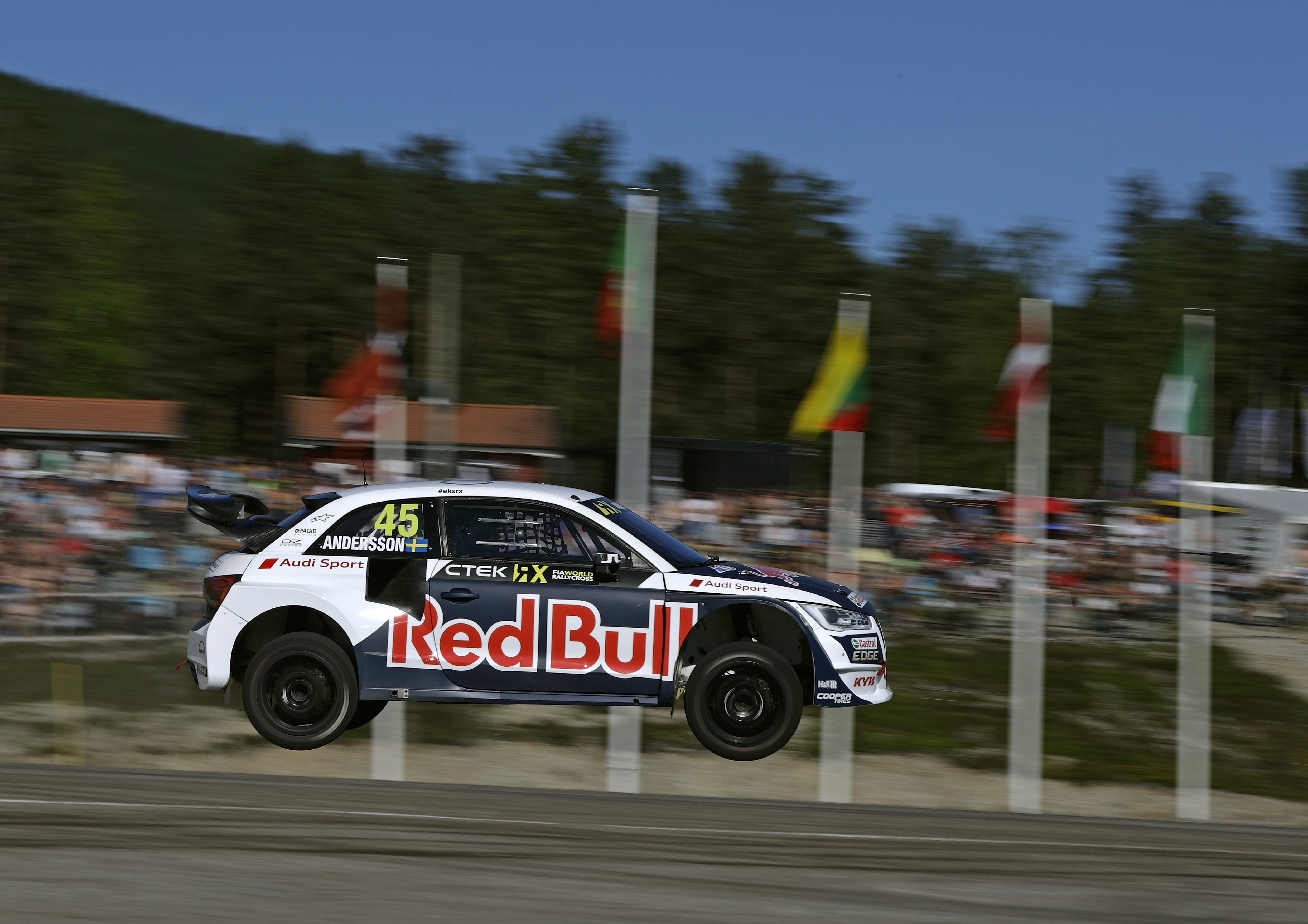 2017 FIA World Rallycross Championship // Round 07, Höljes // Credit: EKS/Bodo Kräling